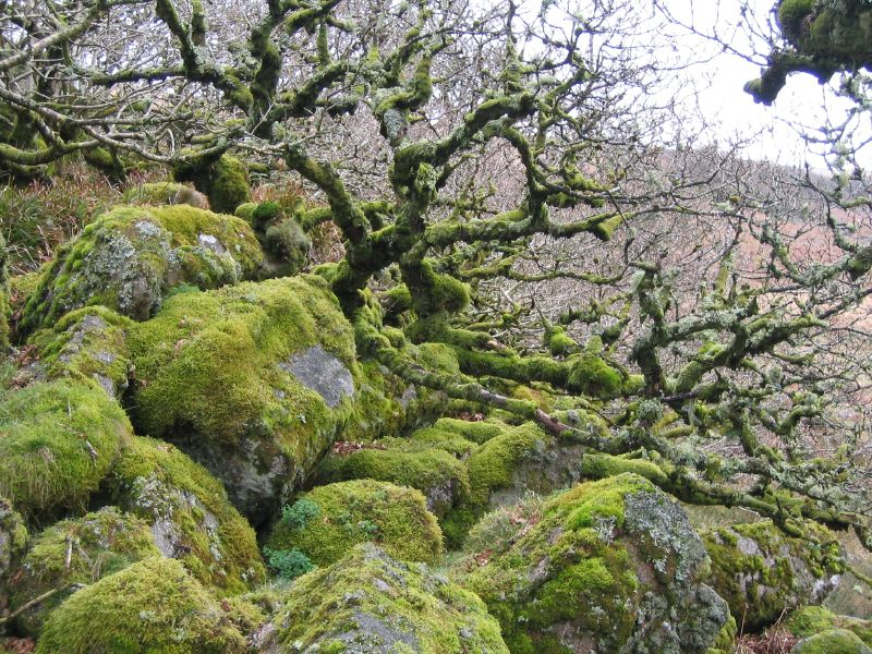 Wistman's Wood, a remnant of ancient oak Quercus robur woodland on Dartmoor, Devon, England.